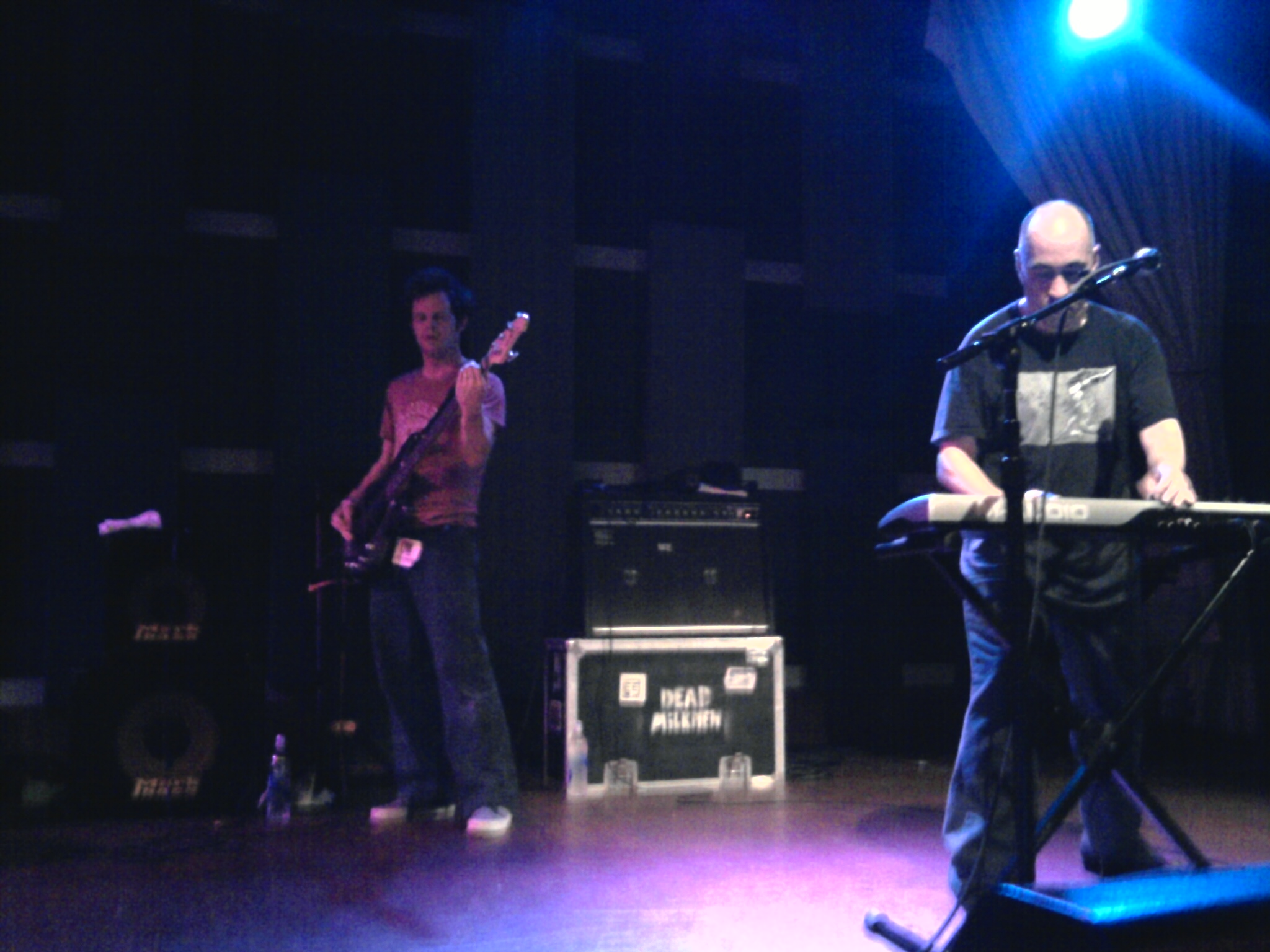 Dead Milkmen live at World Cafe live, Philadelphia, 9/24/10